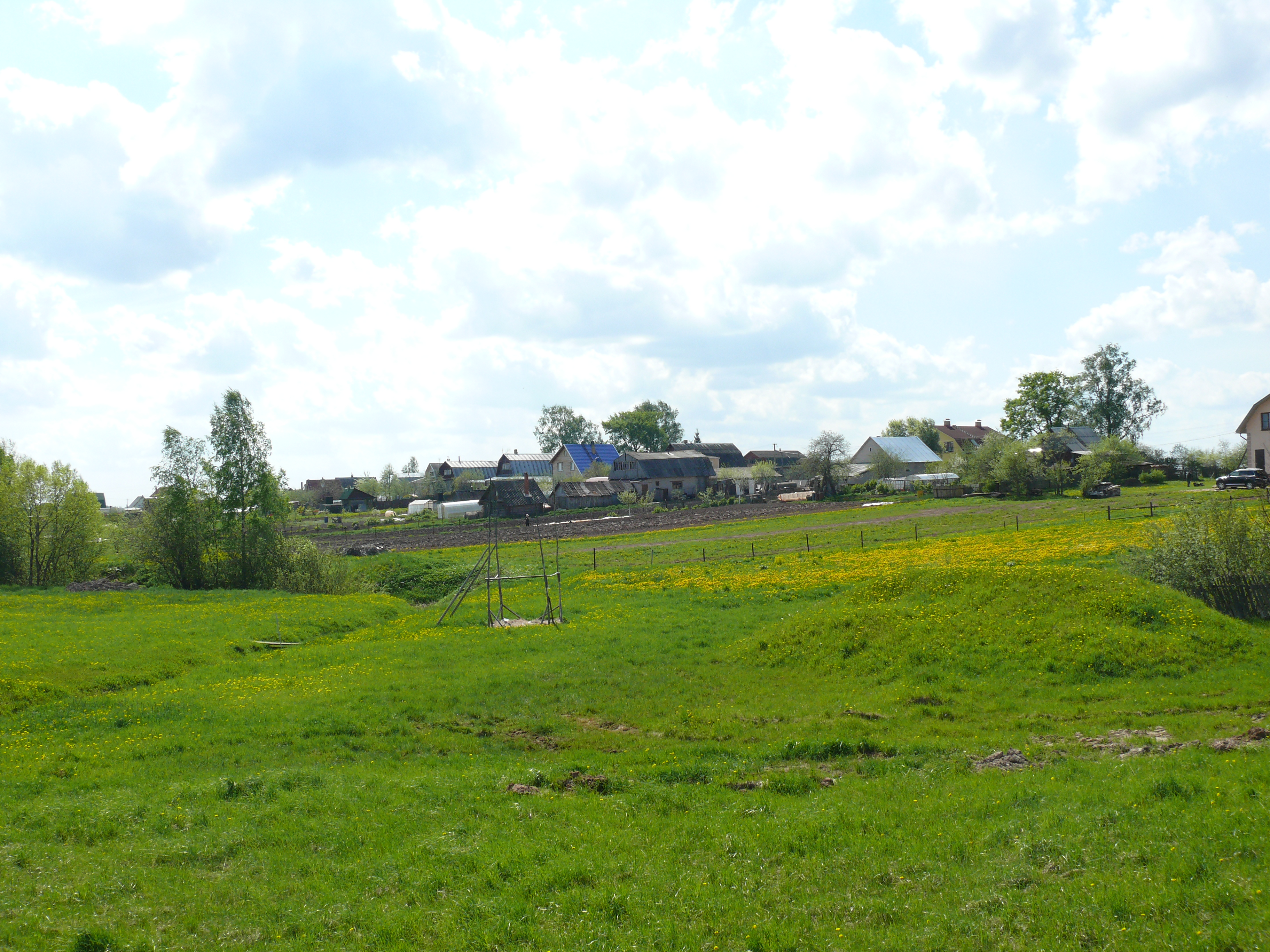 Rashep village. Novgorodsky district, Novgorod oblast, Russia